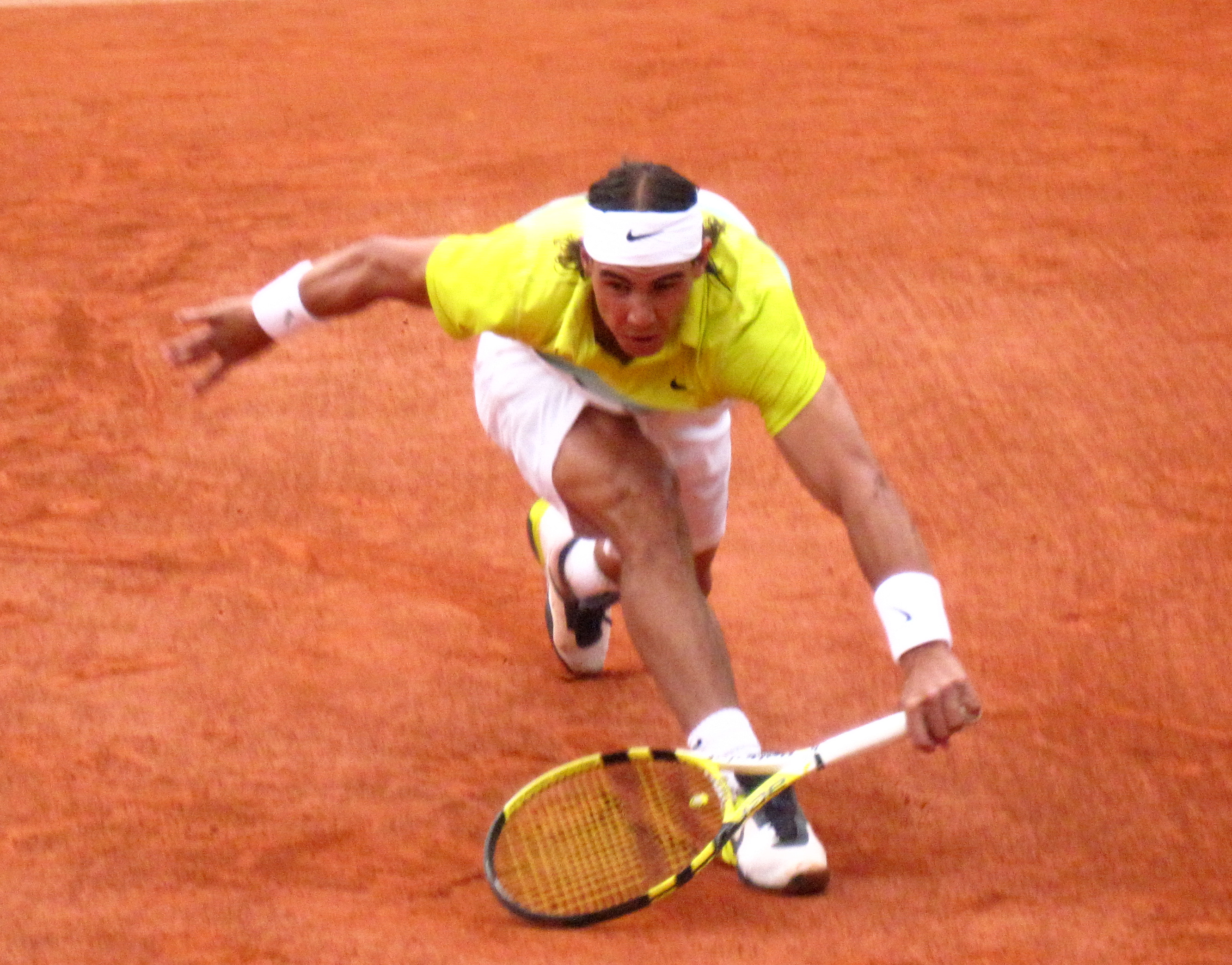 Rafael Nadal at 2009 Roland Garros, Paris, France